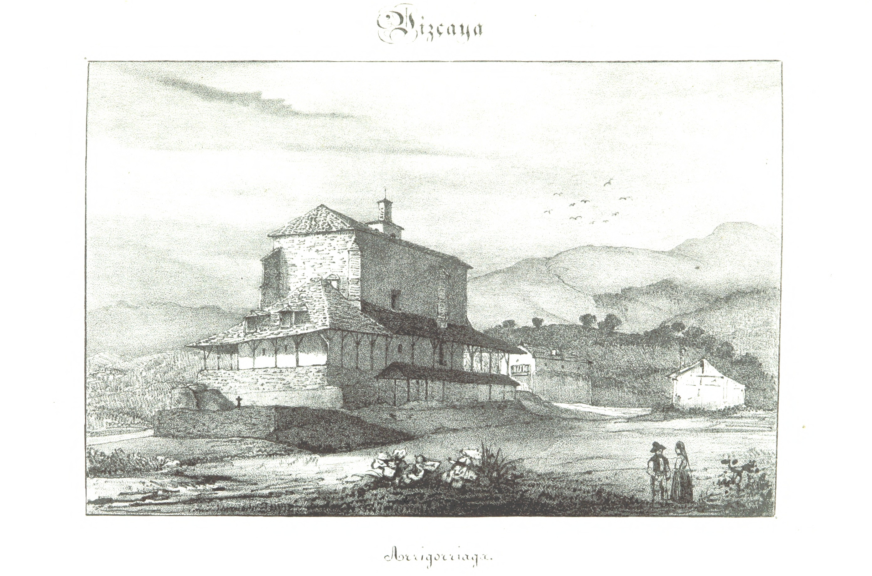 Image taken from: Title: "Revista pintoresca de las provincias Bascongadas. Edicion de lujo. Adornada con vistas ... por S. Lambla. Escrita por L. M. de E. y A. A. y H. Entrega 1-45" Author: E., L. M. de - and A. y H. (A.) Contributor: A. y H., A. Contributor: LAMBLA, Julio. Shelfmark: "British Library HMNTS 10161.f.16." Page: 469 Place of Publishing: Bilbao Date of Publishing: 1844 Issuance: monographic Identifier: 001024664 Explore: Find this item in the British Library catalogue, 'Explore'. Download the PDF for this book (volume: 0) Image found on book scan 469 (NB not necessarily a page number) Download the OCR-derived text for this volume: (plain text) or (json) Click here to see all the illustrations in this book and click here to browse other illustrations published in books in the same year. Order a higher quality version from here.